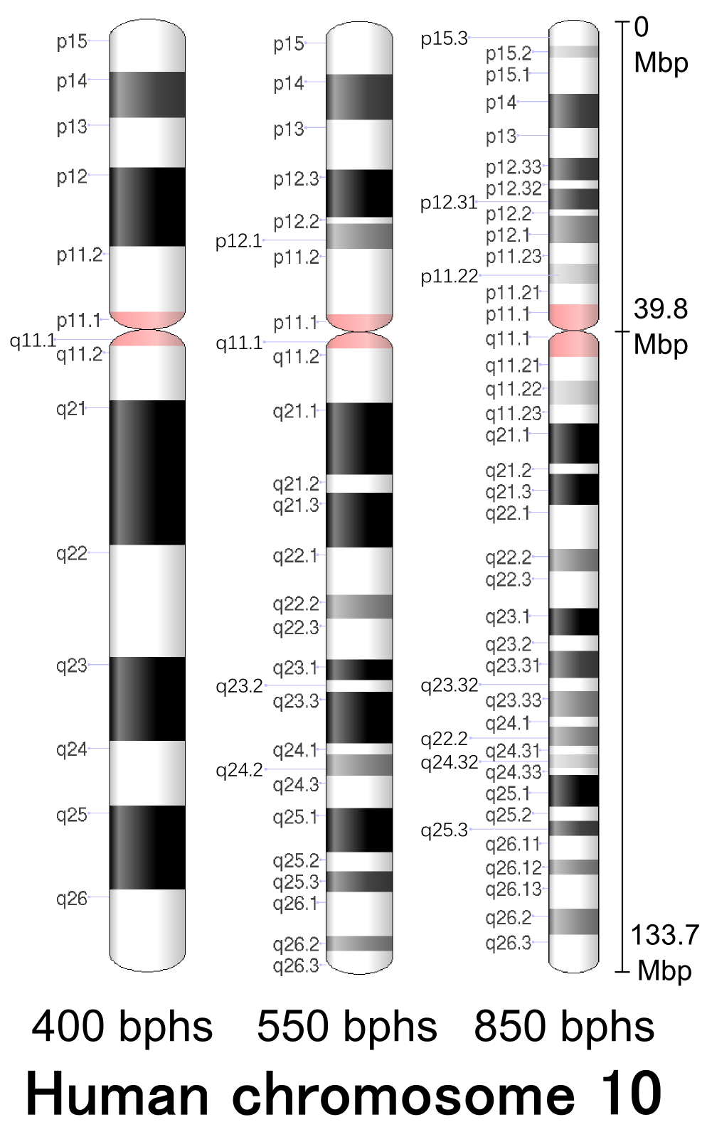 Ideograms of G-band pattern of human chromosome 10 in three different resolutions (400, 550 and 850 bphs, bands per haploid set). Different resolutions are corresponding to different band patterns observed through mitotic phase (about relation between banding resolution and mitotic phase, see, for example, Fig.3 in W Sethakulvichaia (2012)). Legend: Black and gray is Giemsa positive. Red is centromere. Light blue is variable region. Dark blue is stalk. At the right, centromere position (center) and q arm terminus position (bottom), counted from p arm terminus (top) in Mbp (mega base pairs), are labeled. Physical length (sometimes referred as "absolute length") is not labeled. Because physical length of chromosomes vary while mitosis. (typical human chromosome physical length is in the order of from several micrometers to ten and several micrometers. See, for example, Category:Human chromosome images with scale bars.).